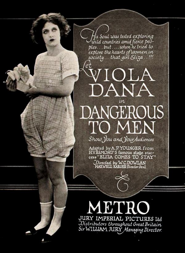 Advertisement for the American comedy film Dangerous to Men (1920) with Viola Dana, on page 4008 of the May 8, 1920 Motion Picture News.